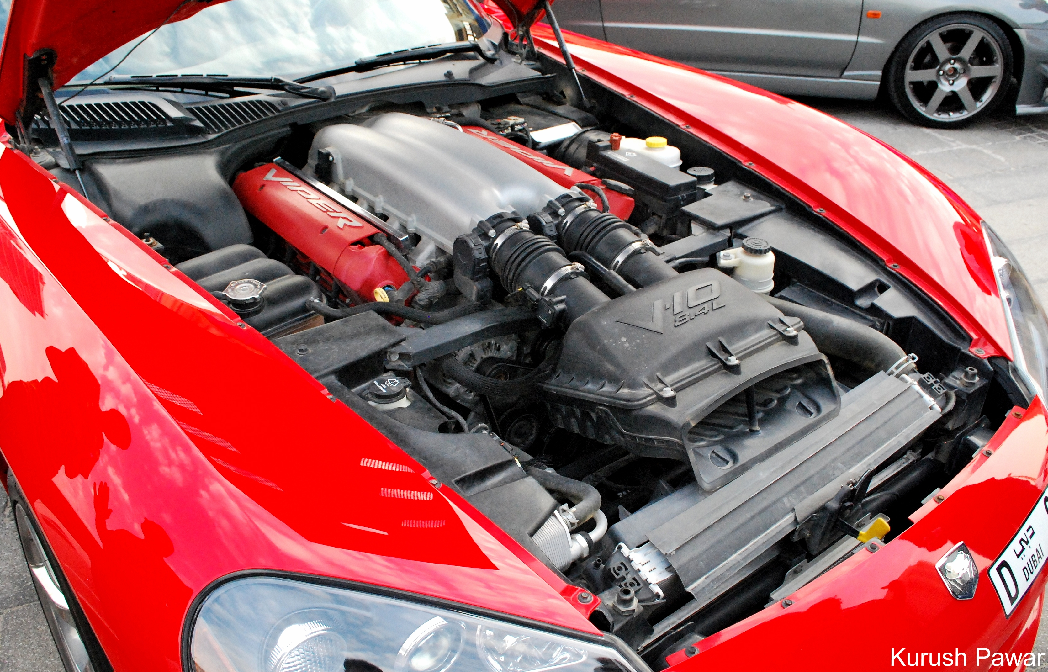 MME Car and Bike Meet @ The Pavillion, Downtown Dubai.